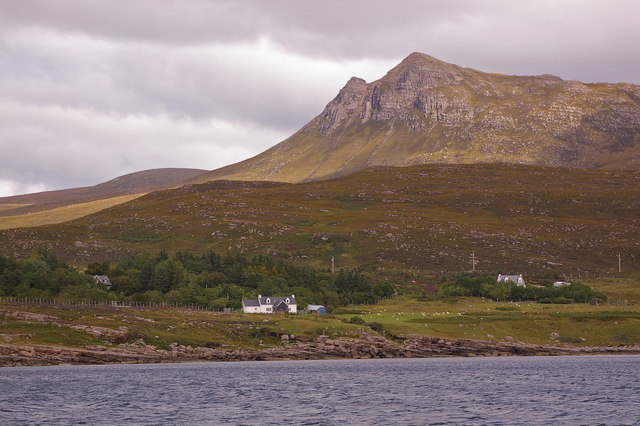 Achduart with Cairn Conmheall behind, Assynt, Scotland